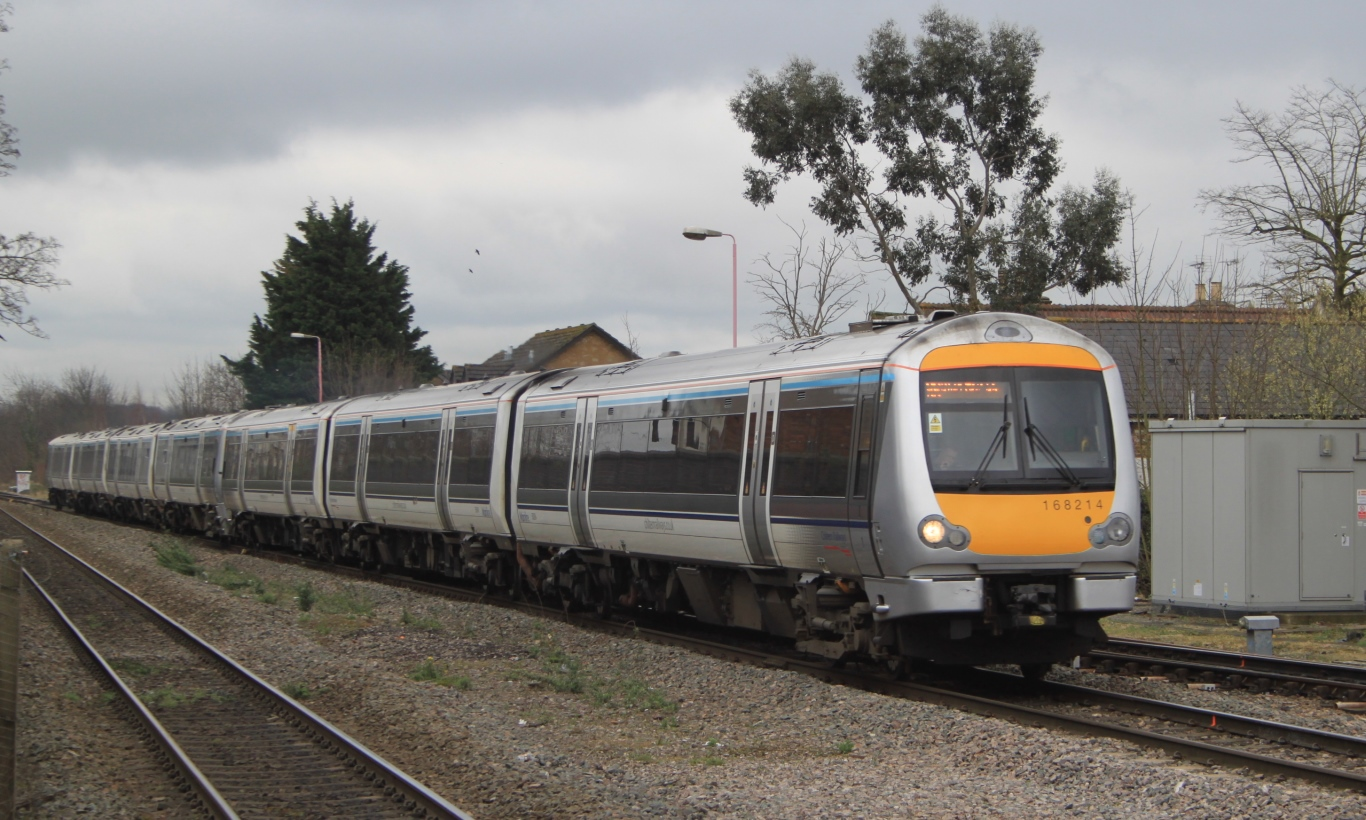 A Chiltern Railways' Mainline service from London Marylebone to Birmingham Snow Hill speeds through High Wycombe, formed by units 168214 and 168003.